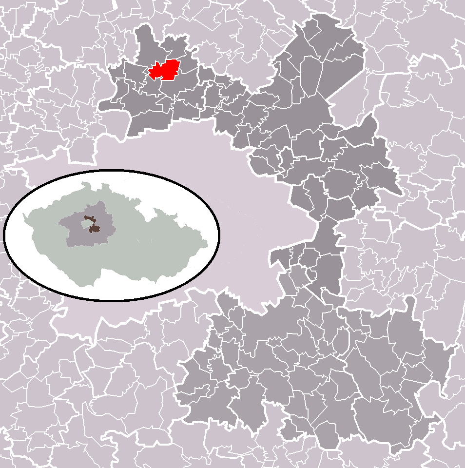 Location of Panenské Břežany municipality within Prague-East District and administrative area of Brandýs nad Labem-Stará Boleslav as a Municipality with Extended Competence.